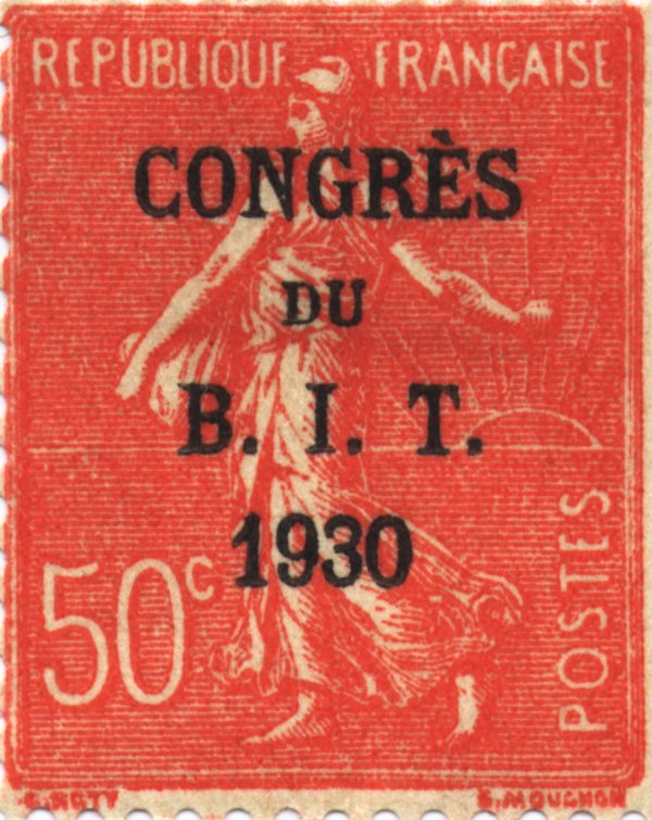 Stamp of France, type Semeuse lignée, with "BIT" overprint on the occasion of a congress of International Labour Bureau, 1930, in Paris.